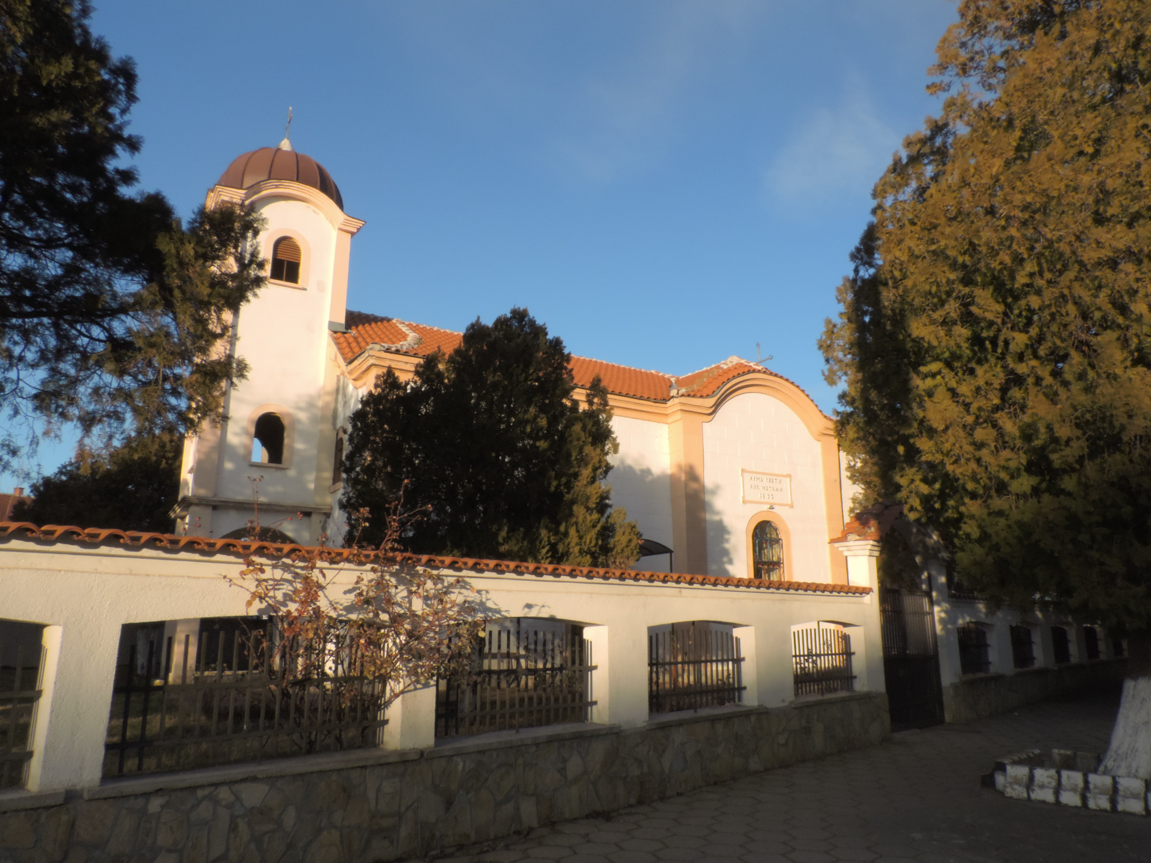 Church "St. Cyril and Methodius" in the town of Nikolaevo, Bulgaria. Built in 1897.